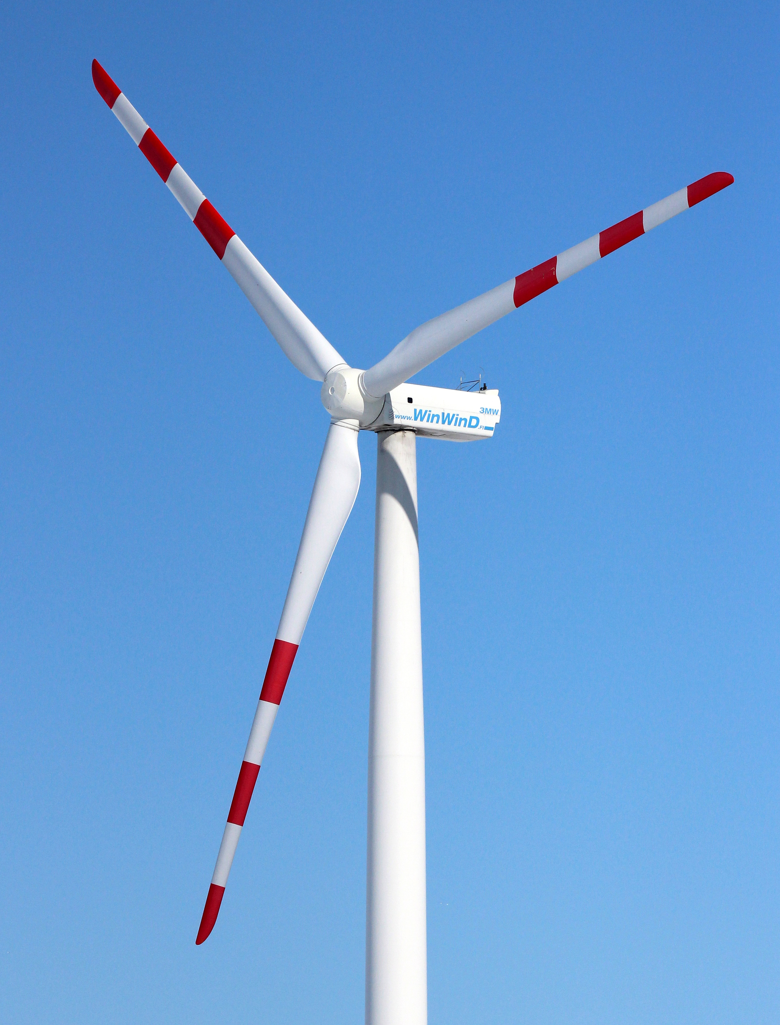 Winwind Ltd. manufactured 3 MW wind turbine in Vihreäsaari island in Oulu.